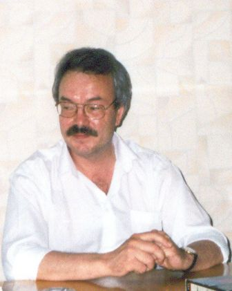 Vjaceslav Ar-Sergi, an Udmurt writer